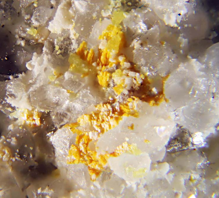 Orange crystals of the extremely rare mercury mineral terlinguacreekite associated to sharp yellow kleinite crystals. Terlinguacreekite is one of the rarest mercury minerals known, with only two localities known worldwide. From: McDermitt Mine, Humboldt County, Nevada, United States of America.